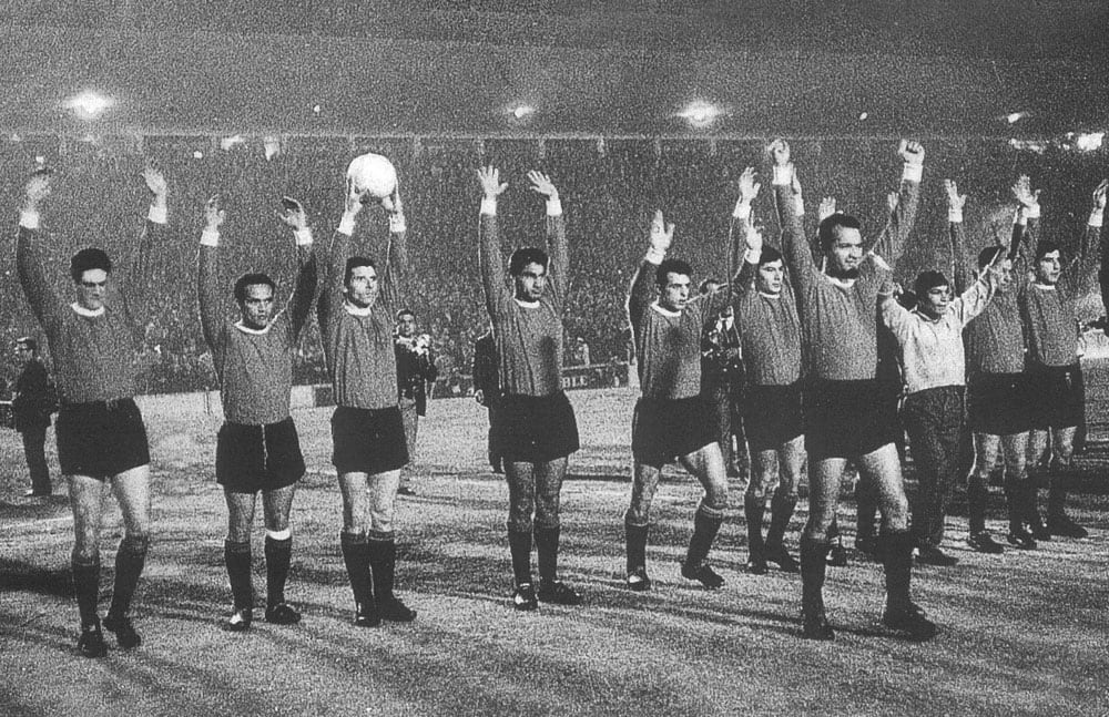 The Club Atlético Independiente team that won the first Copa Libertadores for the club.